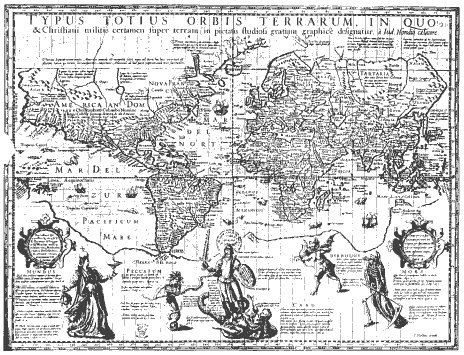 The so-called "Christian Knight map", published by Flemish map-maker Jodocus Hondius in Amsterdam in 1597. To produce the map, Hondius made use of Edward Wright's mathematical methods without acknowledgement.